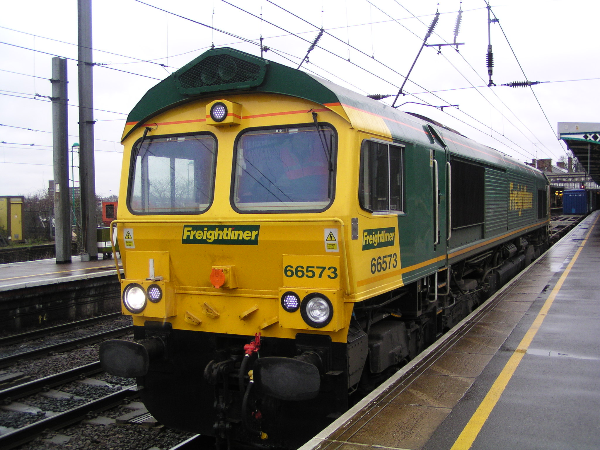 Freightliner BR Class 66, no. 66573 at Ipswich on 31st January 2004.